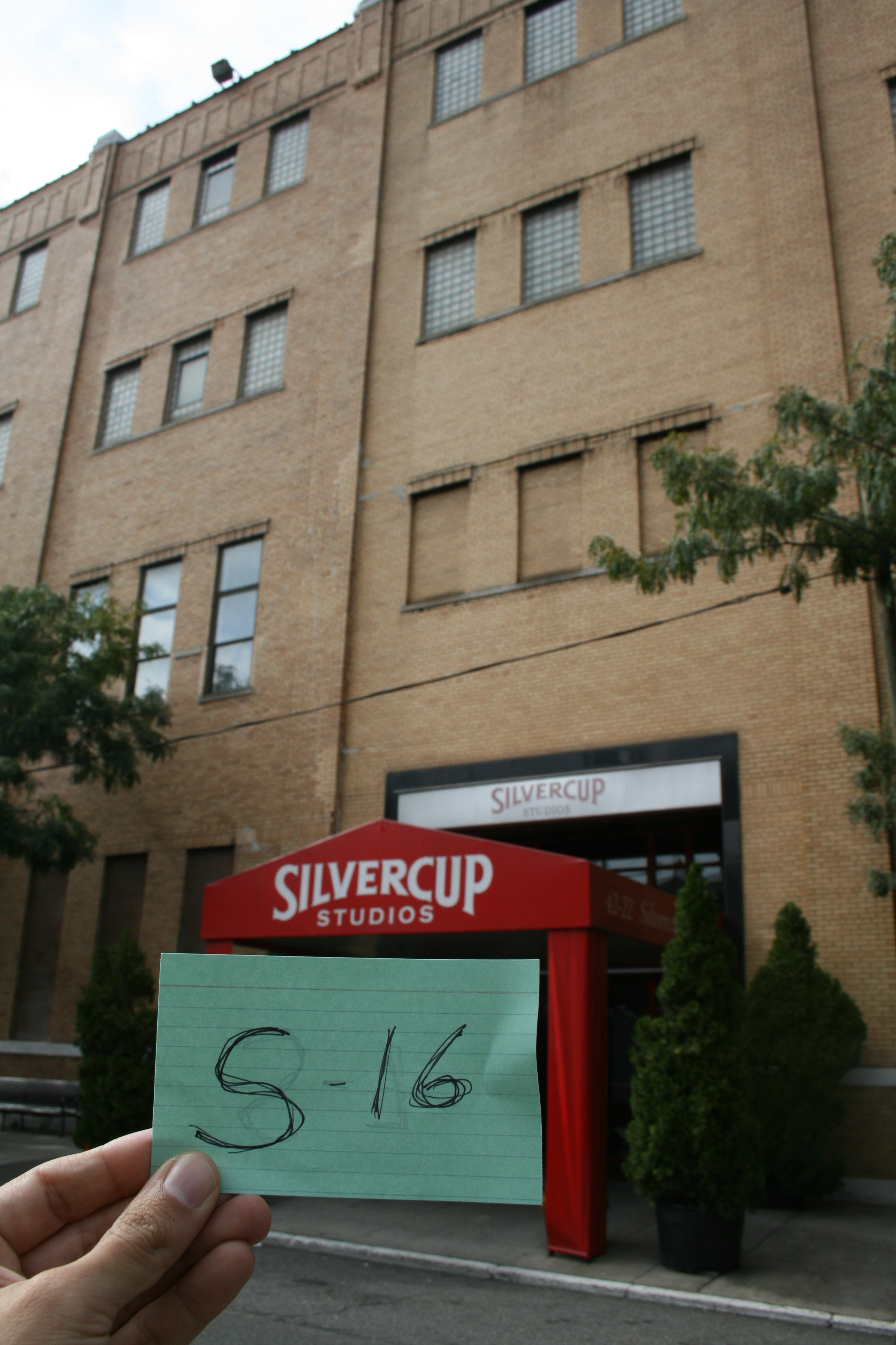 Context photo from 'Wikis Take Manhattan' Wikimedia content creation event.